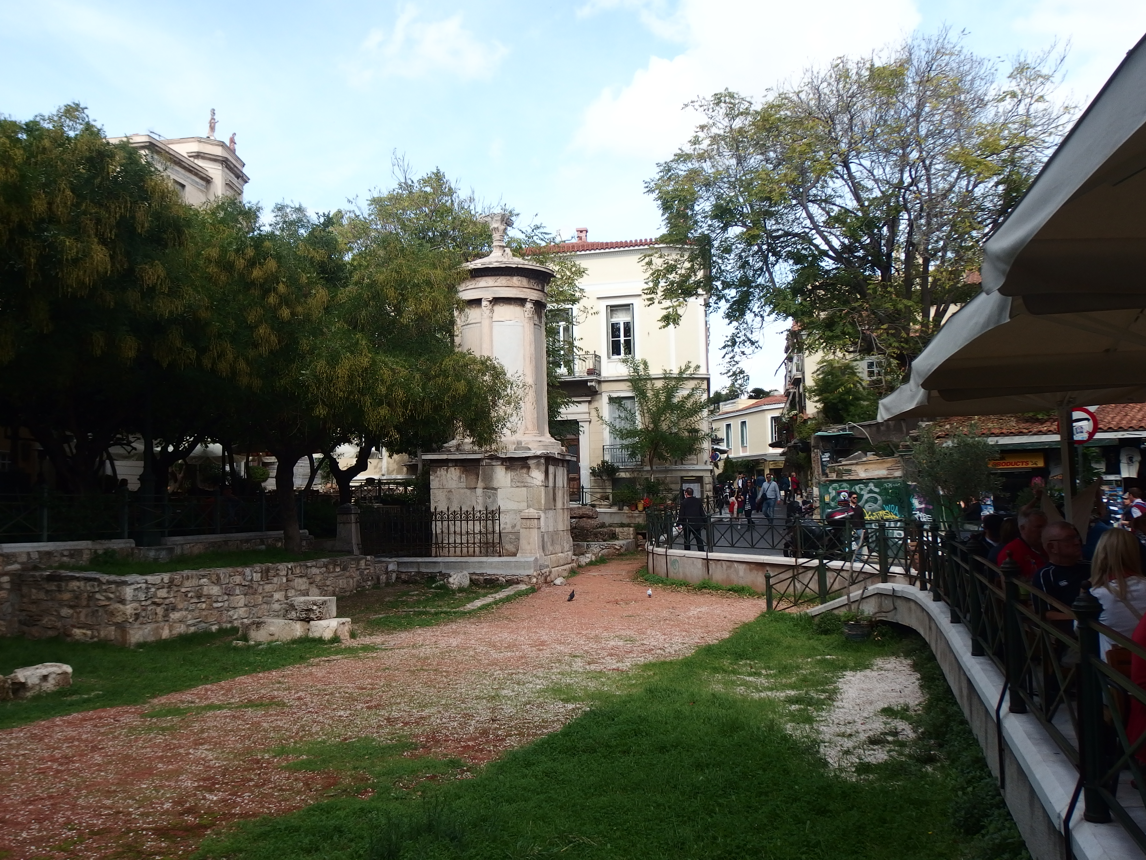 Athens, Choragic Monument of Lysicrates.